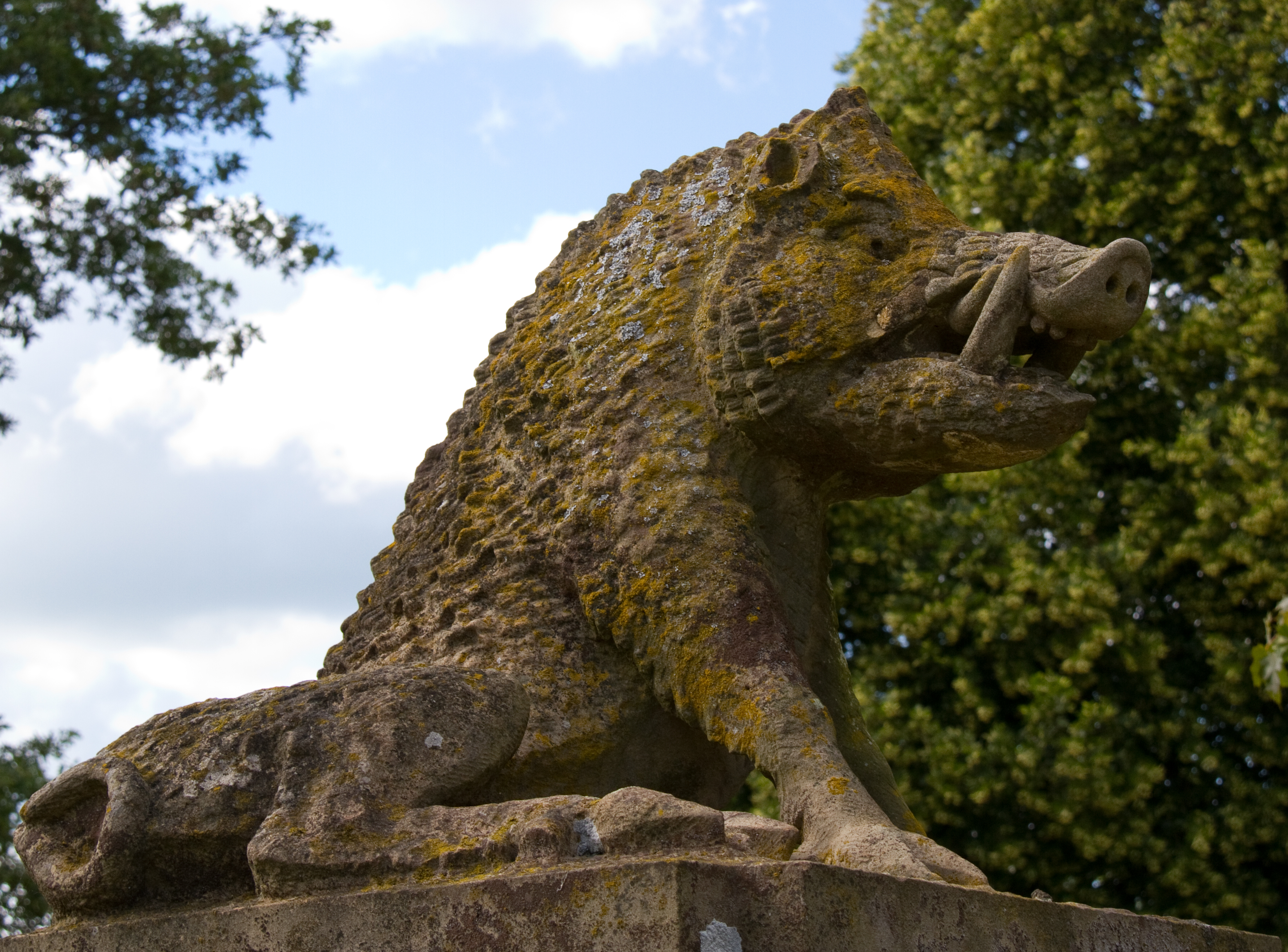 Finial on one of the piers of the east gates of Charlecote Park, Warwickshire